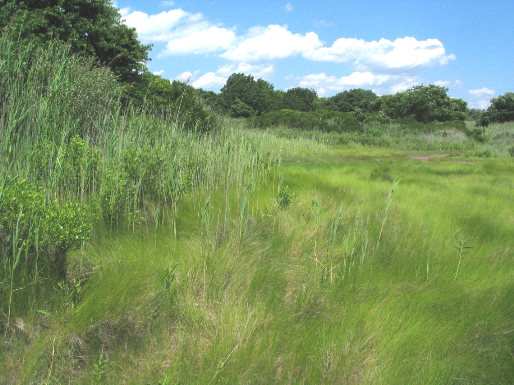 Saltmarsh grass